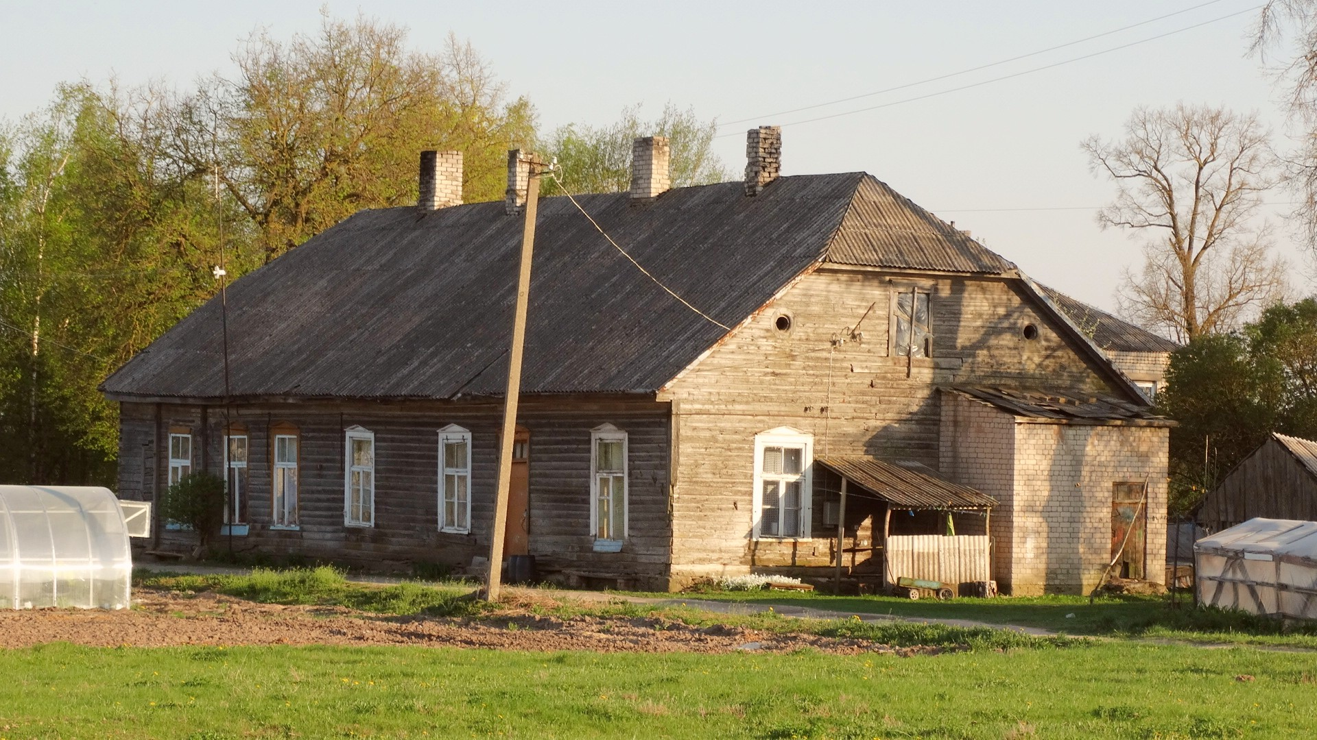 Taukuočiai, Radviliškis district, Lithuania